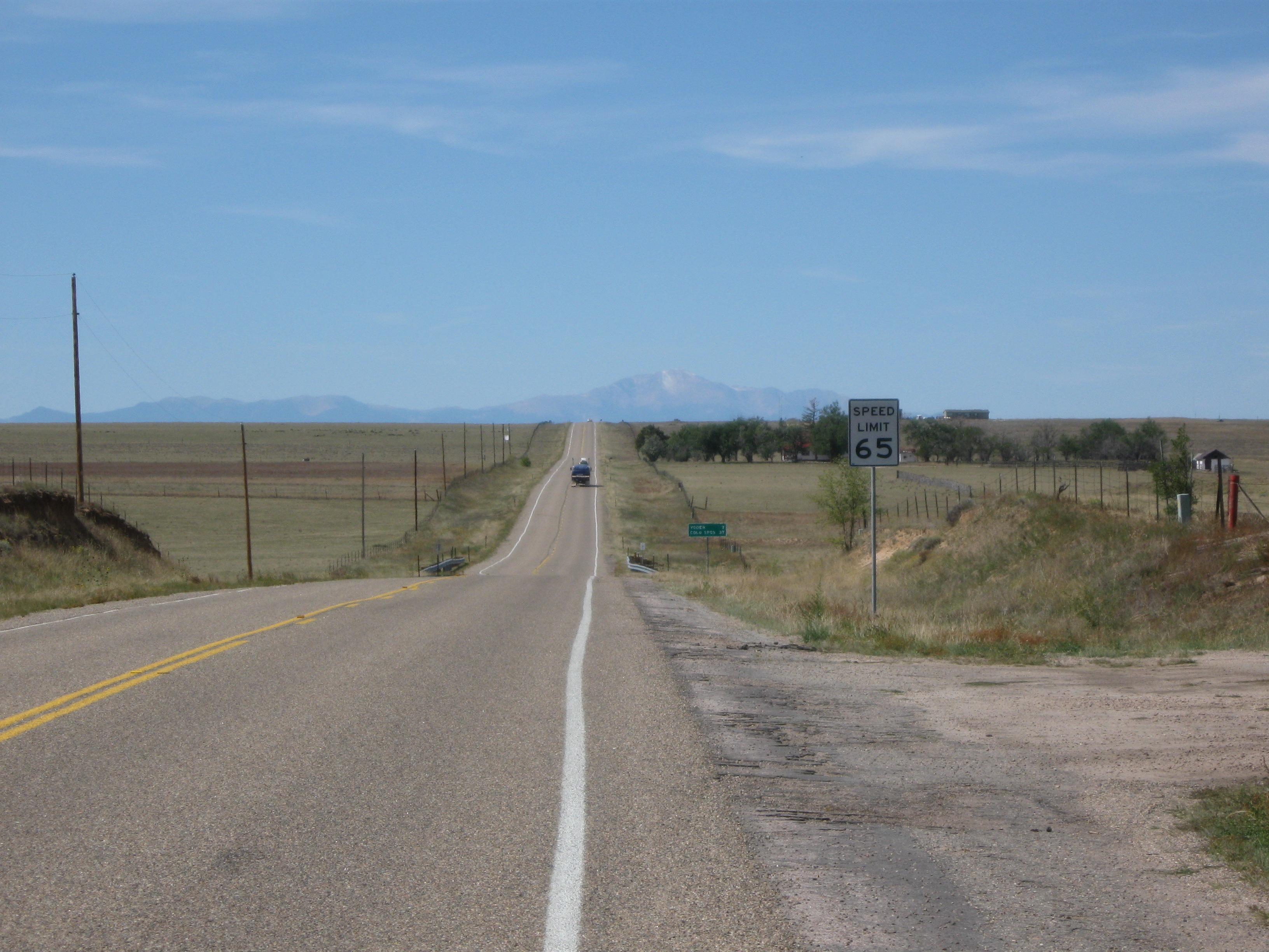 This photo was taken on September 23, 2011. It is looking west, along Colorado State Highway 94.